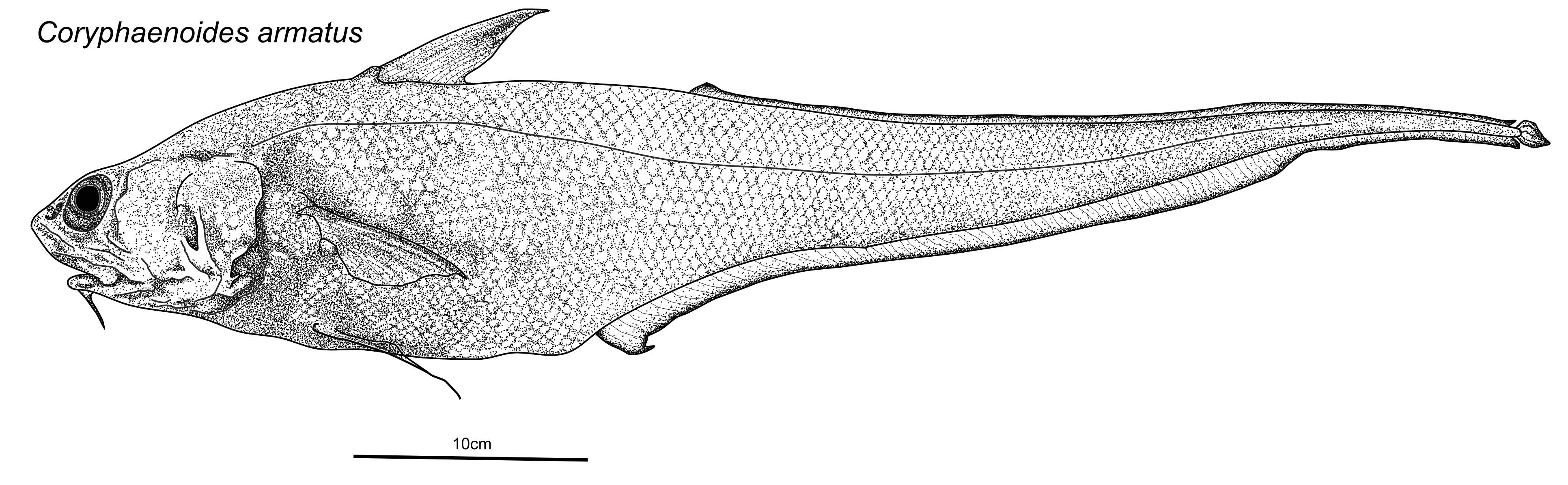 An illustration of the abyssal grenadier Coryphaenoides armatus